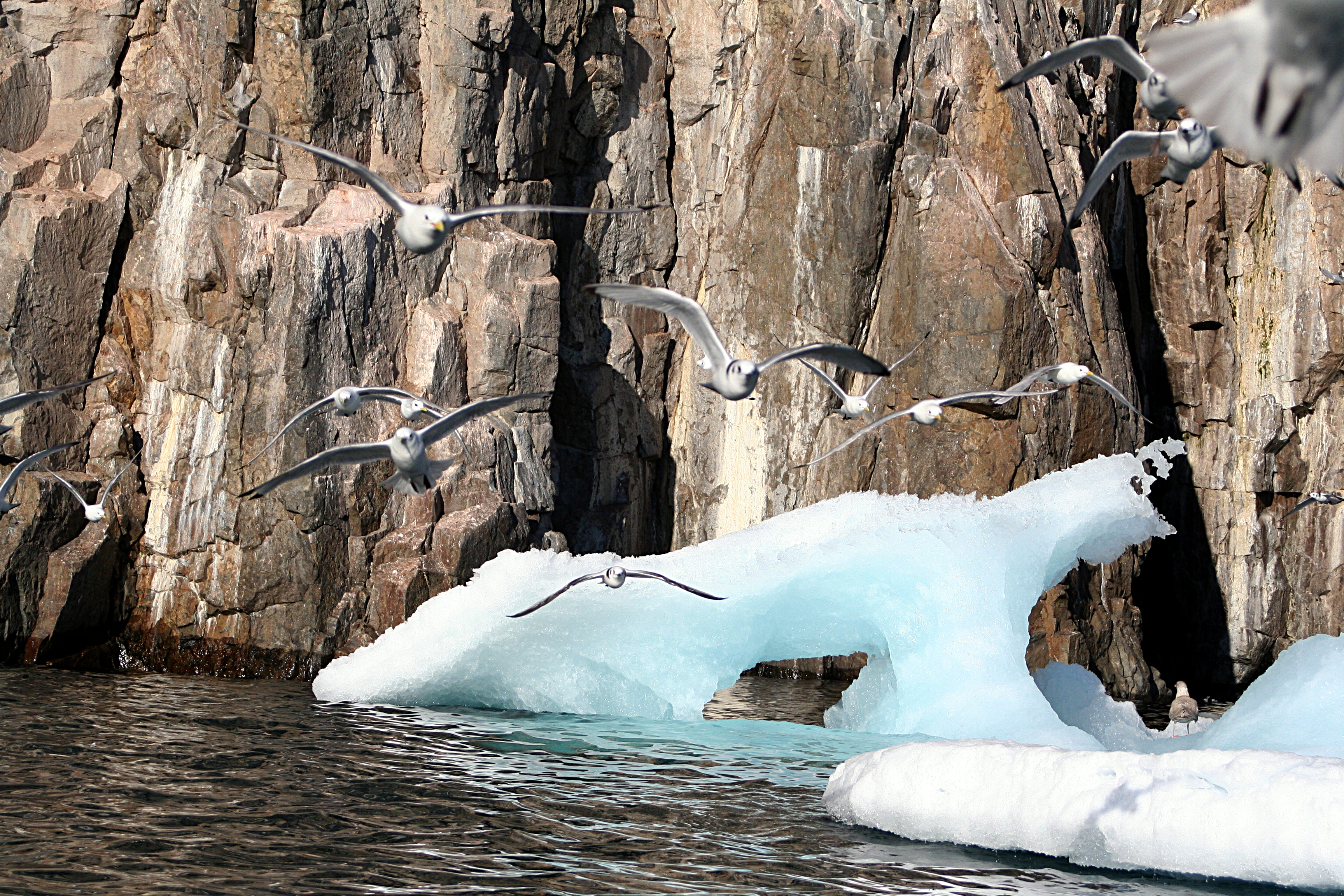 Black-legged Kittiwakes at Cape Hay, High Arctic. The image was taken by Brocken Inaglory